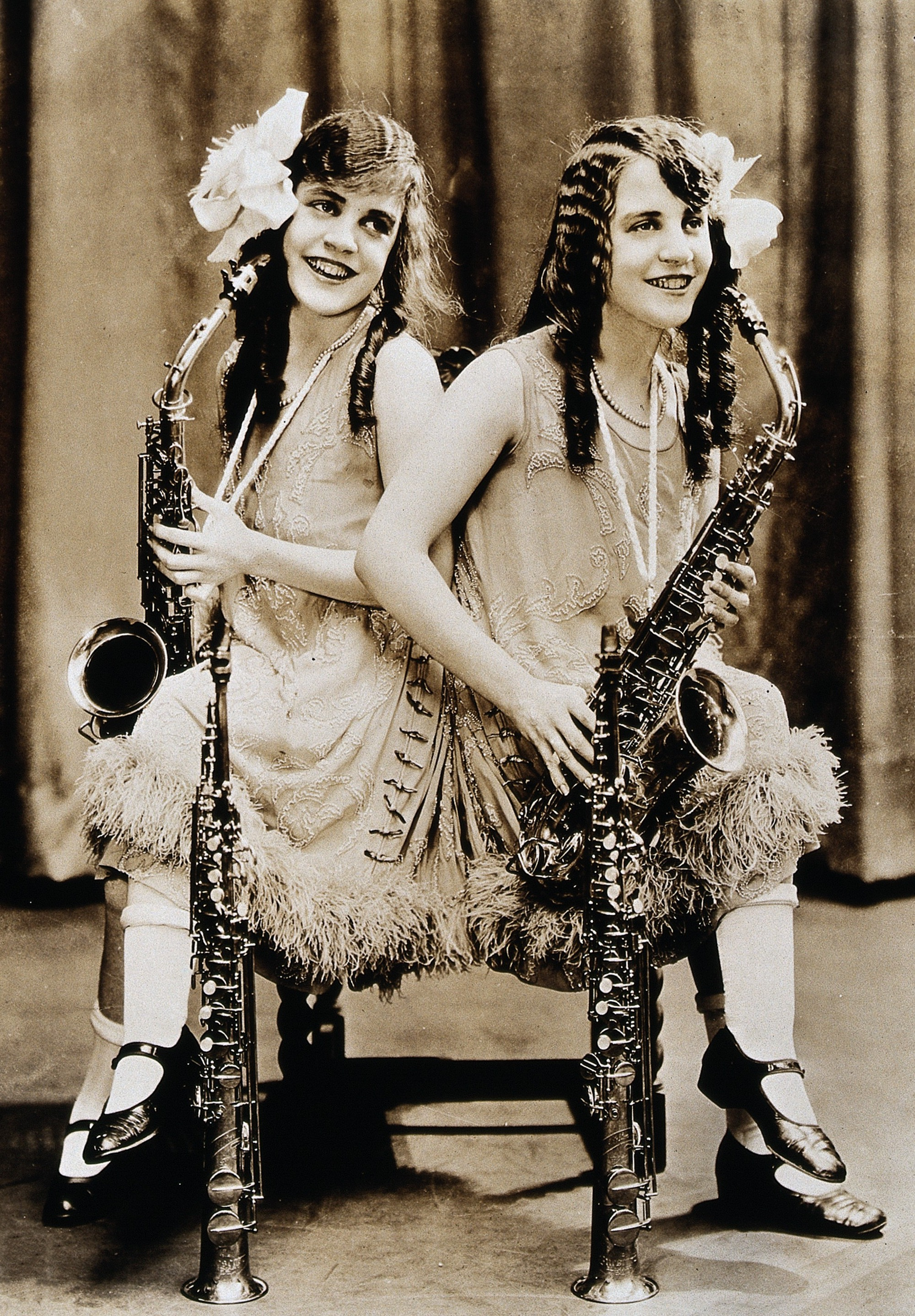 Daisy and Violet Hilton, conjoined twins